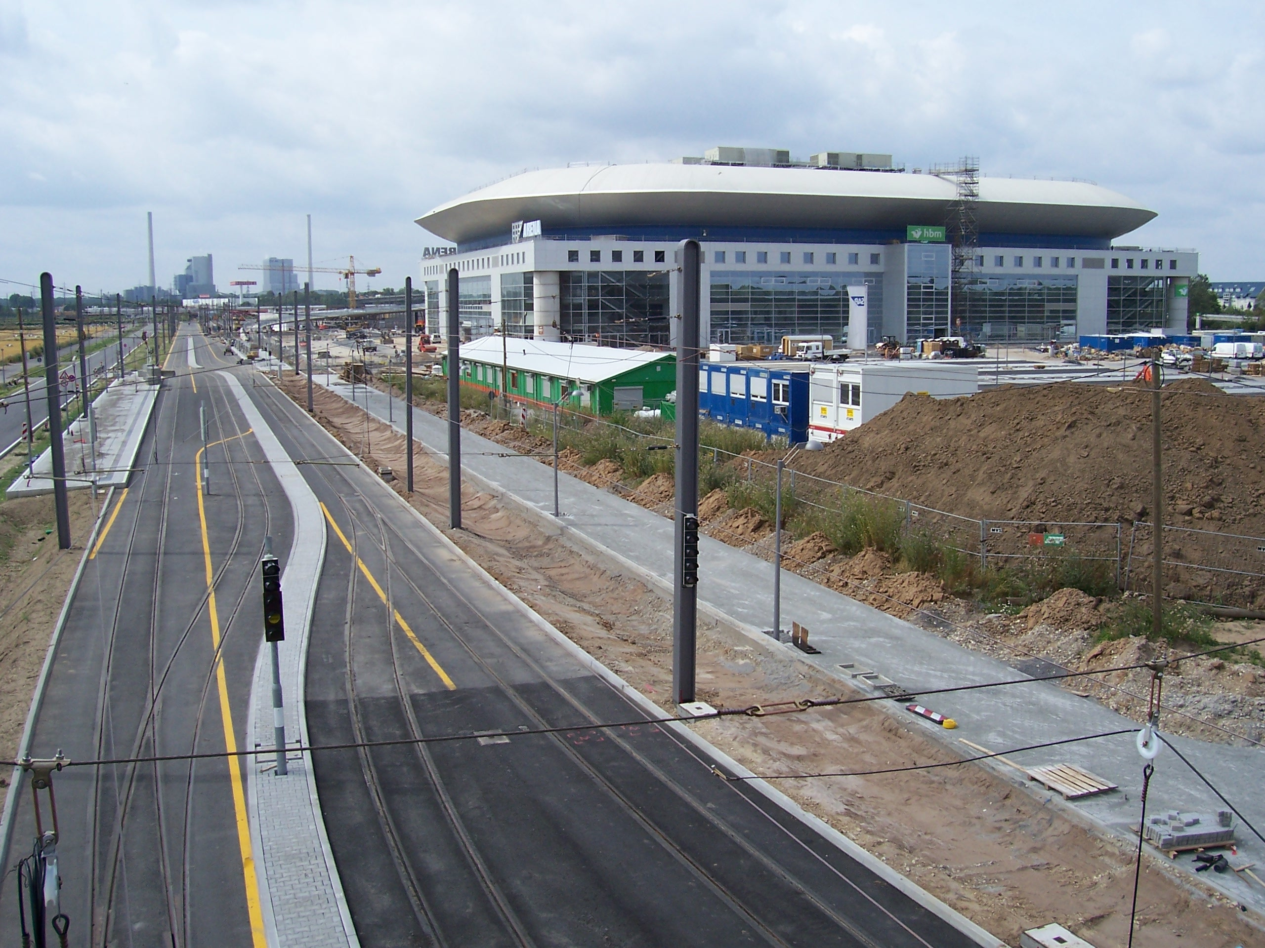 Building place of the SAP-Arena in Mannheim, Germany.